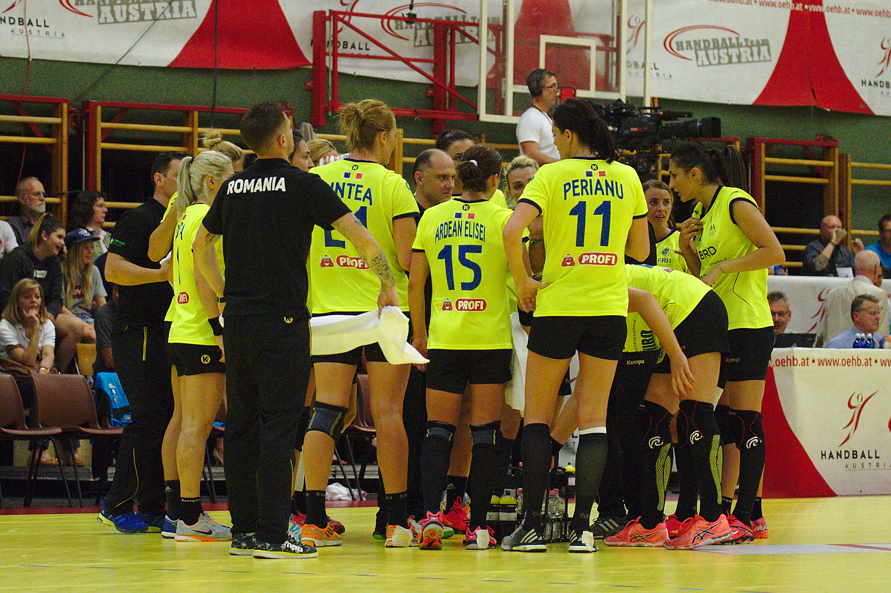 2017 Women's World Championship Qualification Europe - Phase 2 Play-Off. Bild zeigt: rumänische Mannschaft bei der Timeoutbesprechung